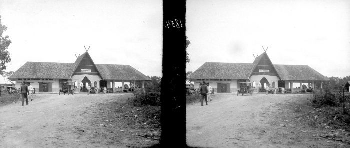 Railwaystation in Martapura, Residency Palembang, Sumatra